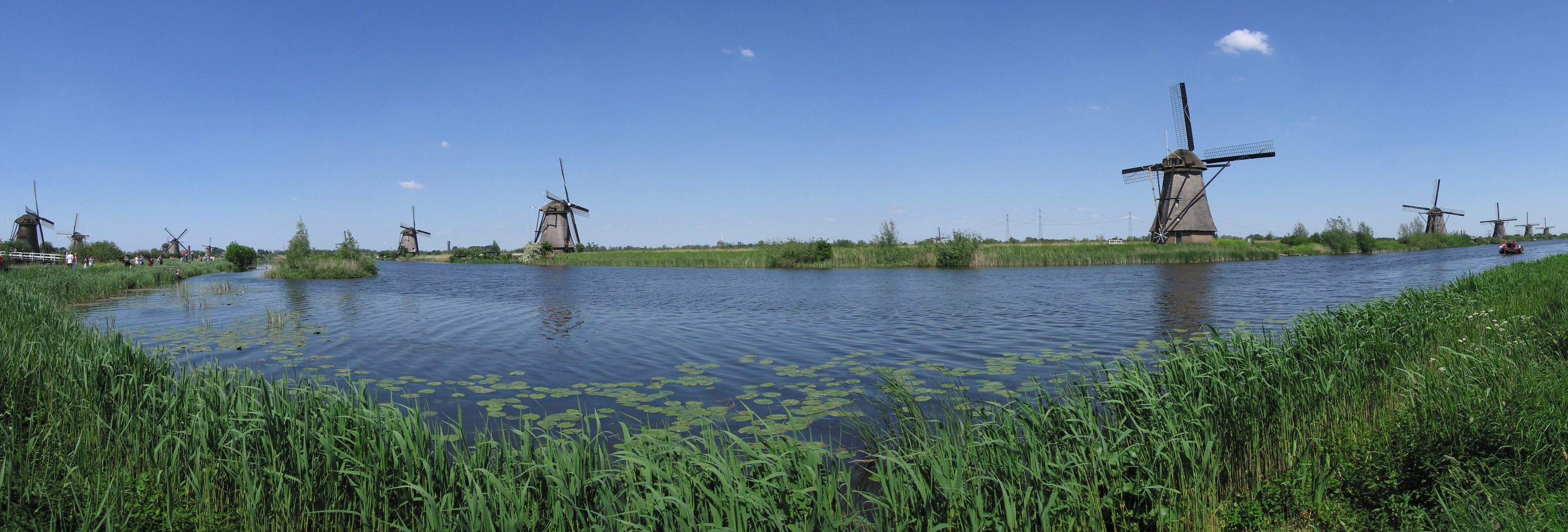 Windmills in Kinderdijk